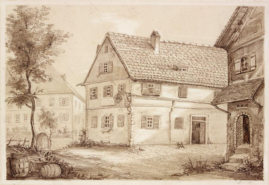 Friedrich Schiller's (1759–1805) birth house in Marbach am Neckar, drawn by his grandson Ludwig von Gleichen-Rußwurm in 1859.